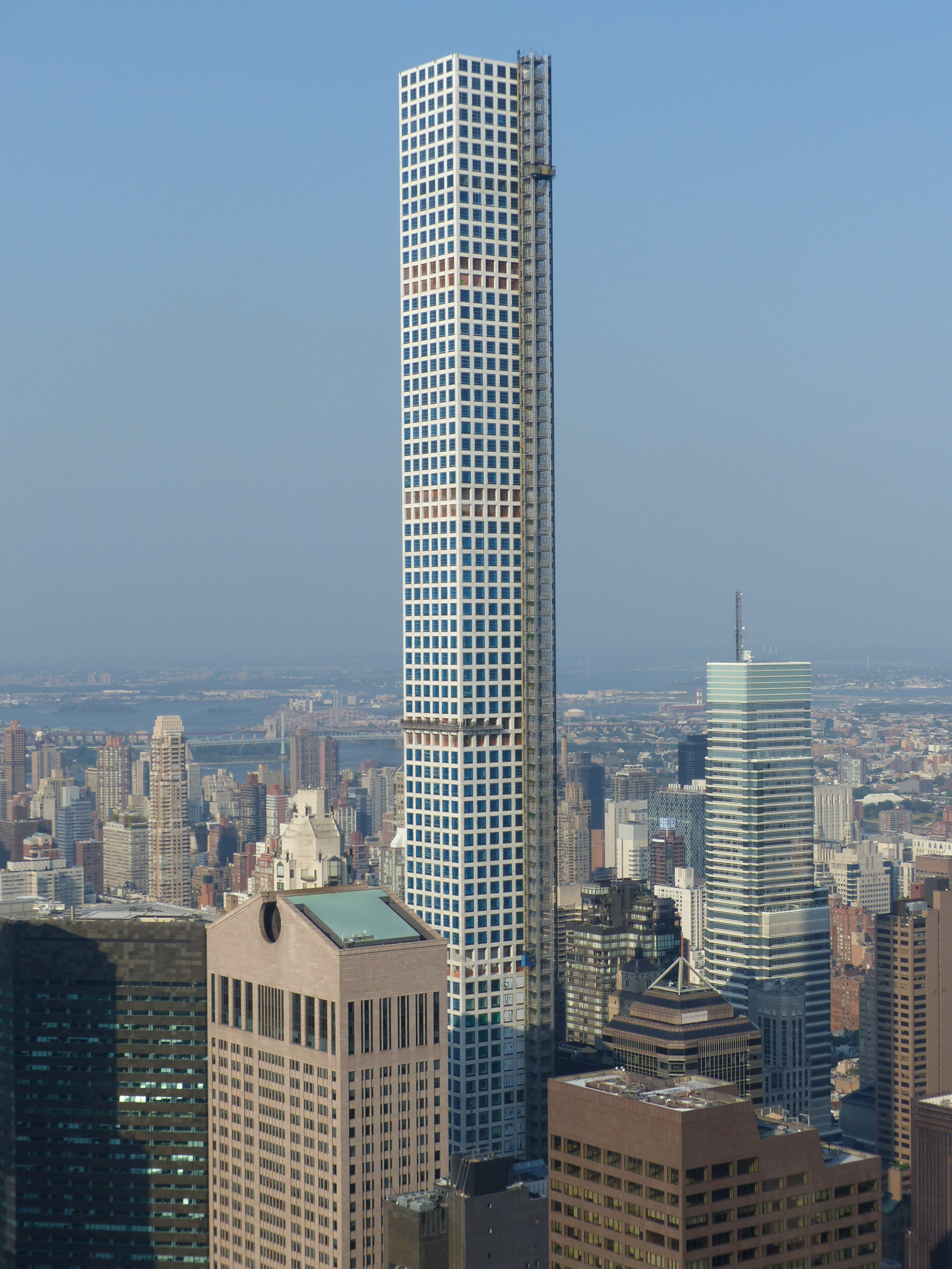 The 432 Park Avenue skyscraper in Manhattan during the final stages of construction; photo taken from the Rockefeller Tower.